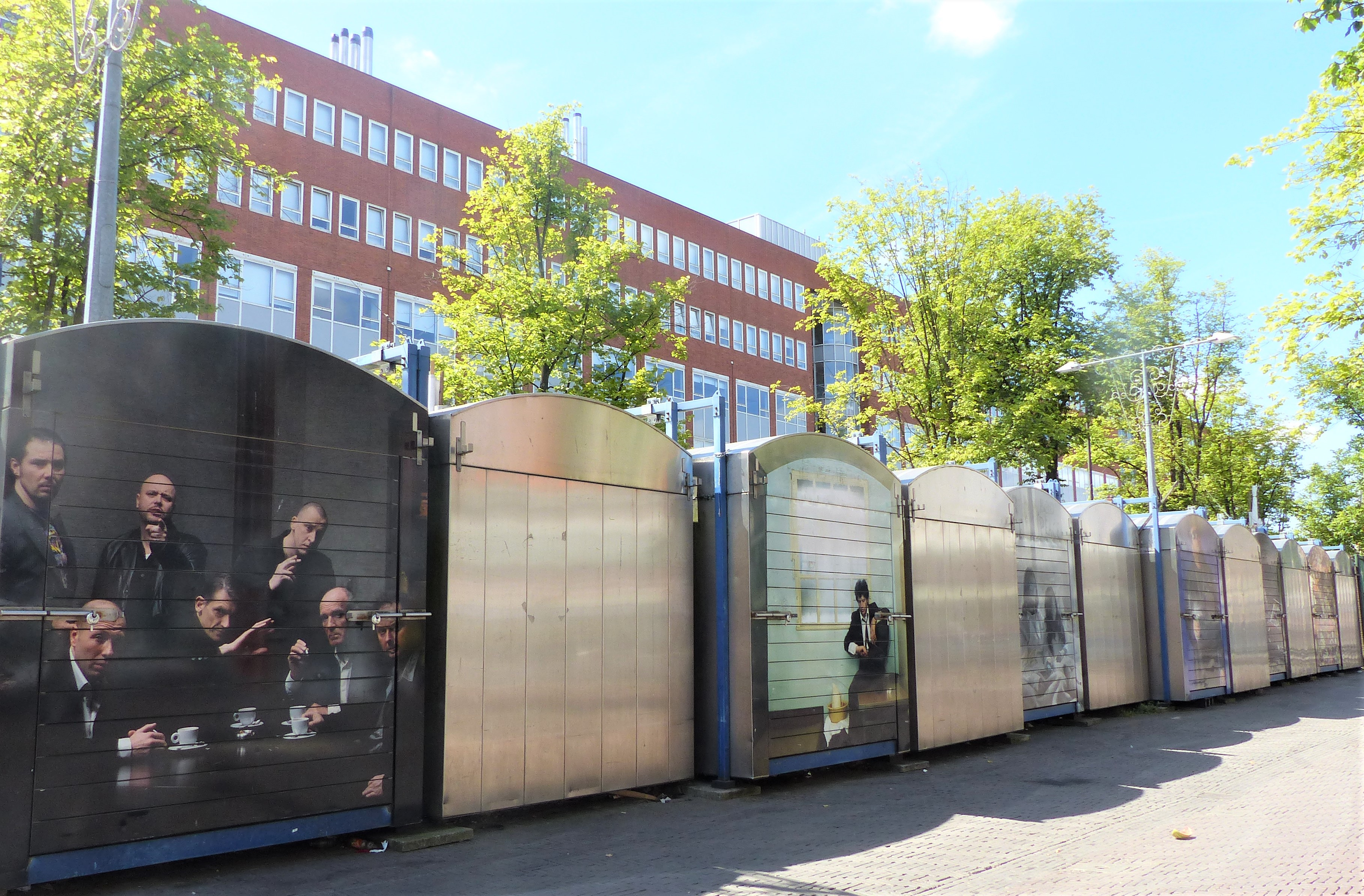 Waterlooplein. Amsterdam, Kingdom of th Netherlands. Taken on the 5th of August, 2018.